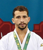 Judo at the 2017 Islamic Solidarity Games